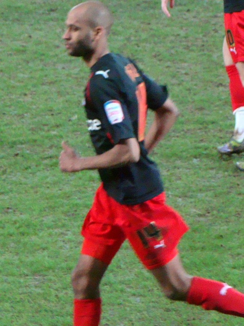 01/02/11 Cardiff V Reading, Championship, Cardiff City Stadium, Cardiff, Wales